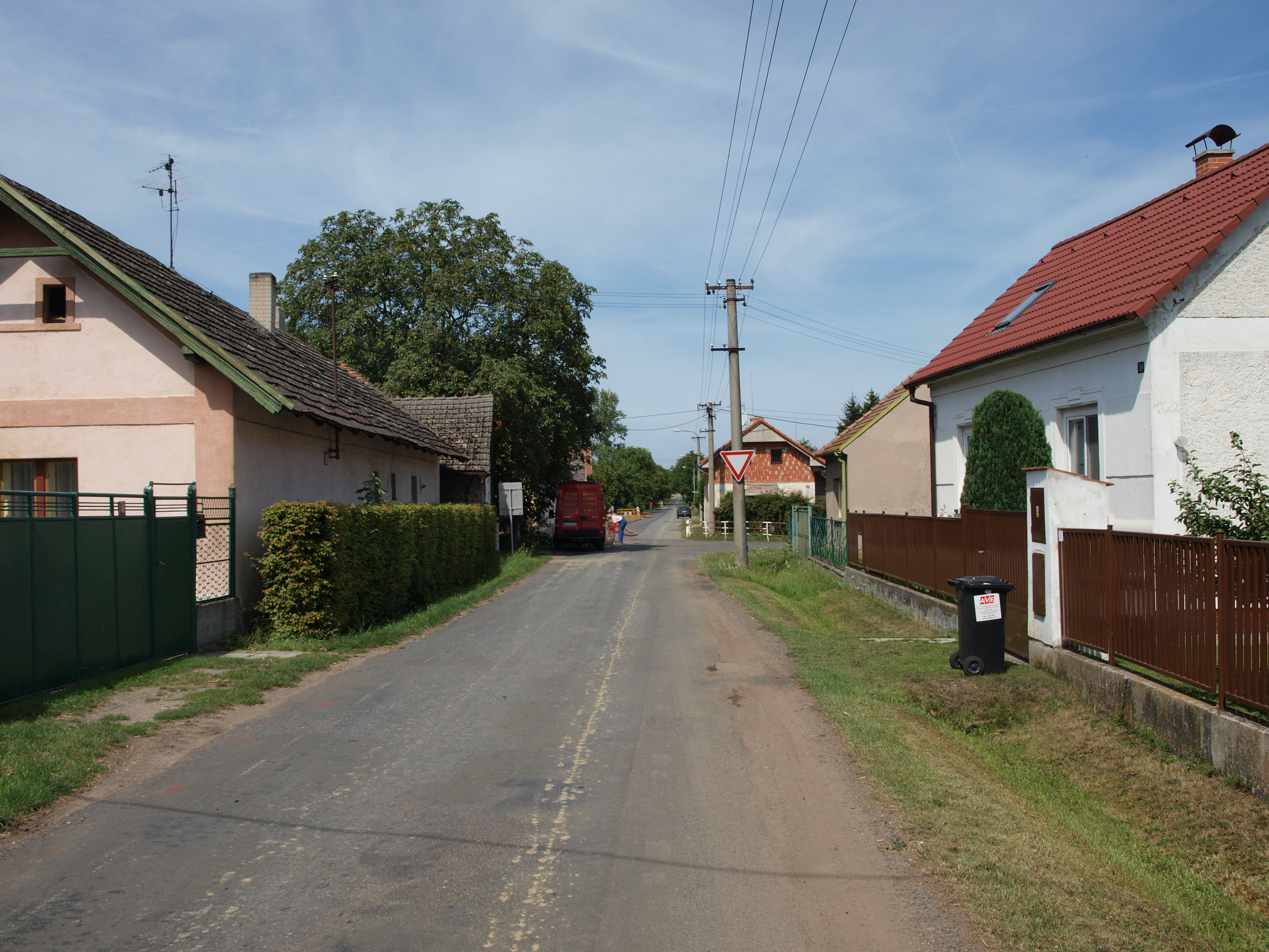 Crossroad, right Bobnice, Kovansko, Bobnice, Nymburk District, Central Bohemian Region